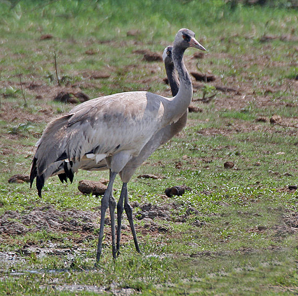 Common Cranes (Grus grus) at Keoladeo National Park, Bharatpur, Rajasthan, India.